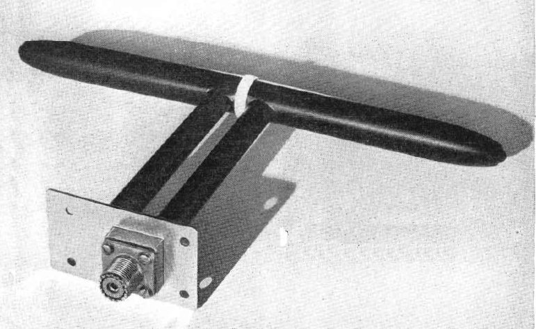 A dipole antenna of a radar altimeter from an advertisement in a 1947 radio magazine. It was mounted on the bottom surface of an aircraft and transmitted radio waves which reflected from the ground. The altitude of the aircraft was calculated from the time it took the radio waves to return. This is a half-wave dipole; composed of two symmetrical elements each 1/4 wavelength long, insulated from each other with the white insulator. It is mounted 1/4 wavelength below the aircraft's body, so the aircraft's aluminum skin functioned as a reflecting surface to reinforce the outgoing wavefront. It is made of painted brass tubing, and was mounted parallel to the airstream to reduce air drag. The text gave no information about the operating frequency, but if the antenna is roughly 20 cm, long as it appears to be, the wavelength is around 40 cm so the operating frequency was in the UHF range, around 700 MHz. A coaxial cable feedline attached to the connector, bottom.